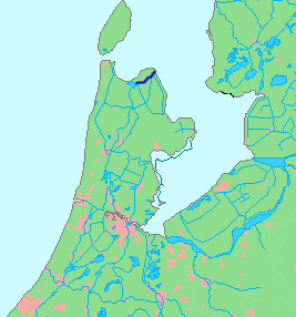 Location Amstelmeerkanaal